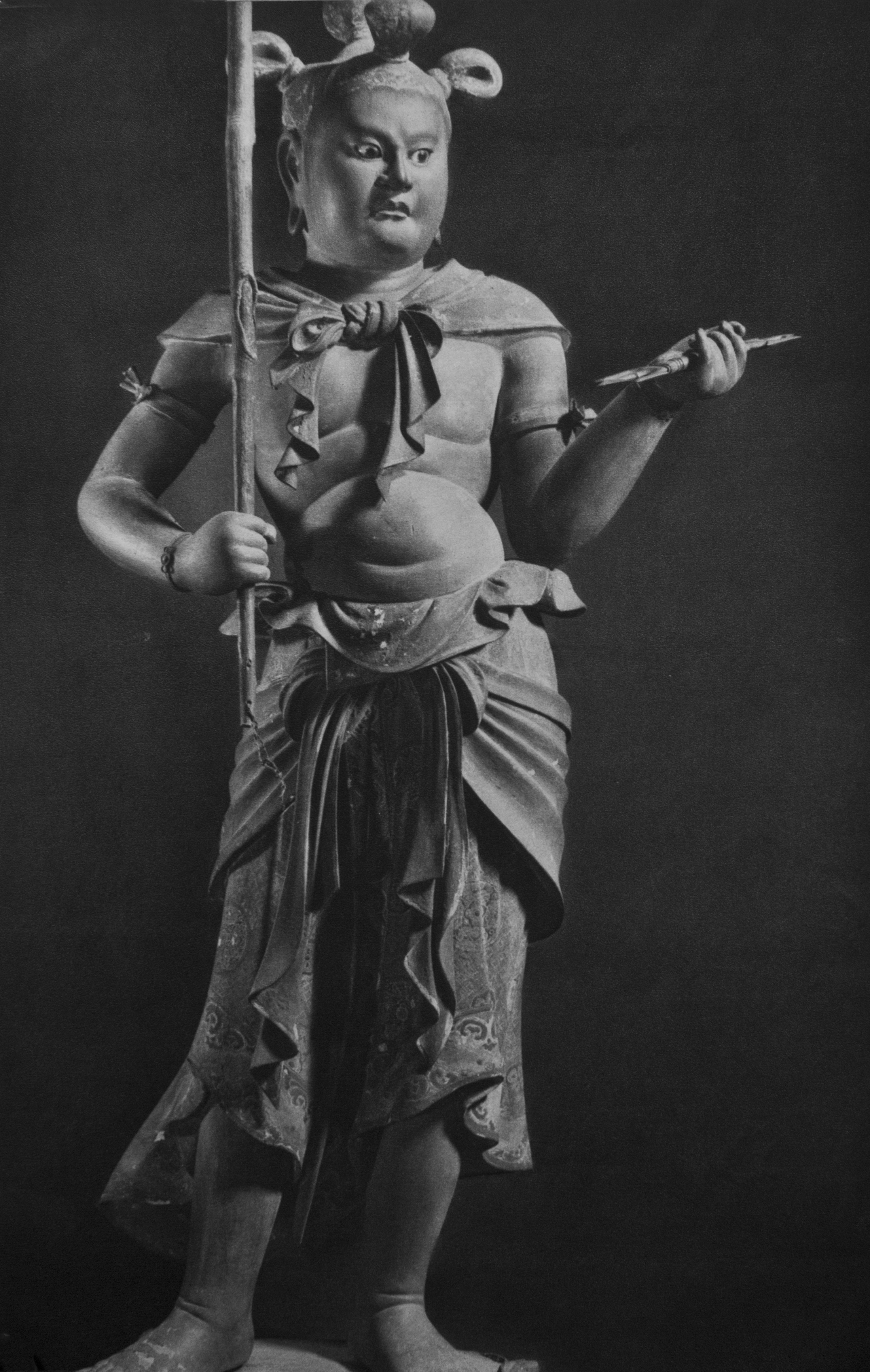 Kongobuji, Wakayama, Japan